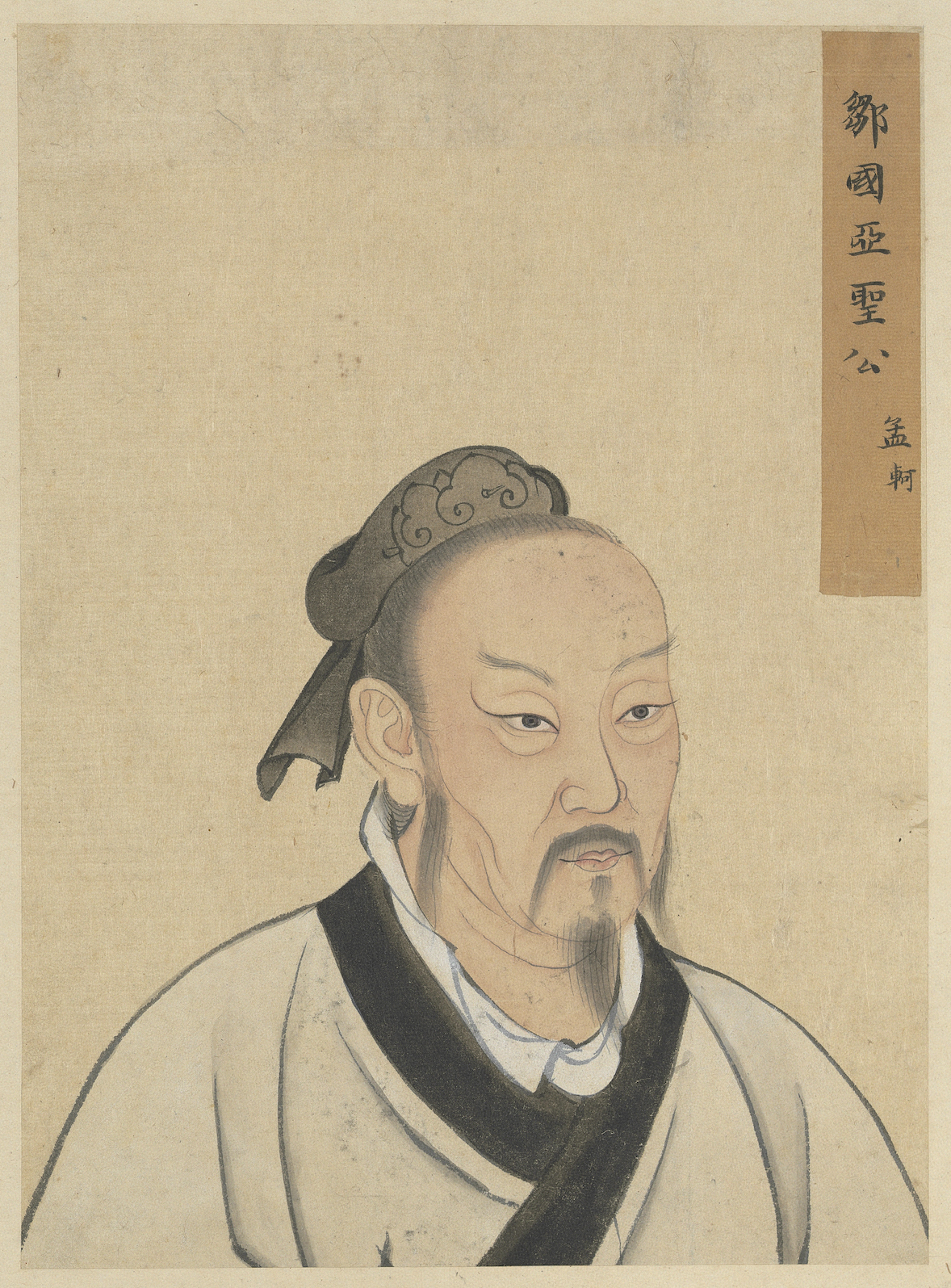 This depicts Meng Ke (孟軻), also known as Mencius.